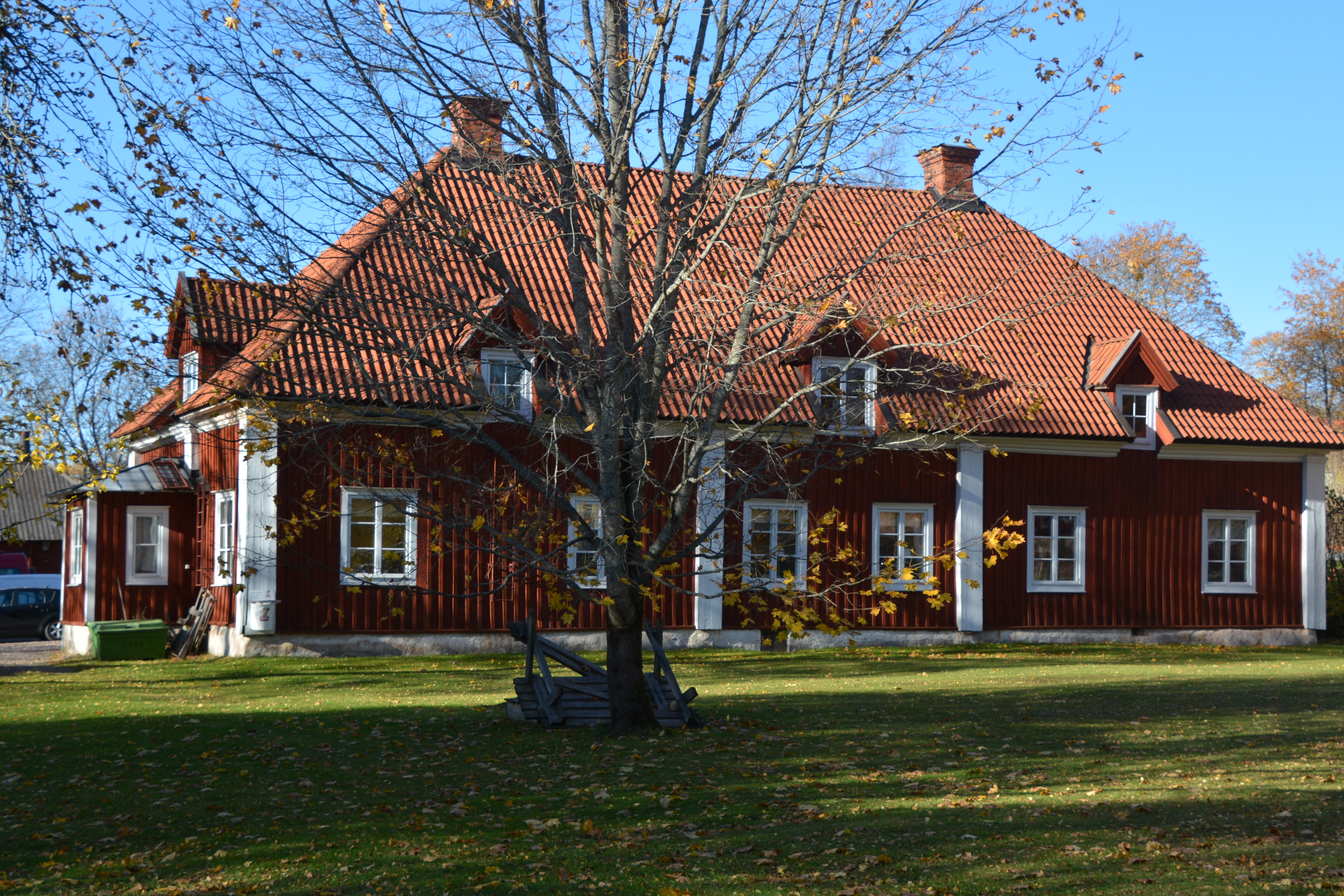 Stora gården Kopparberg